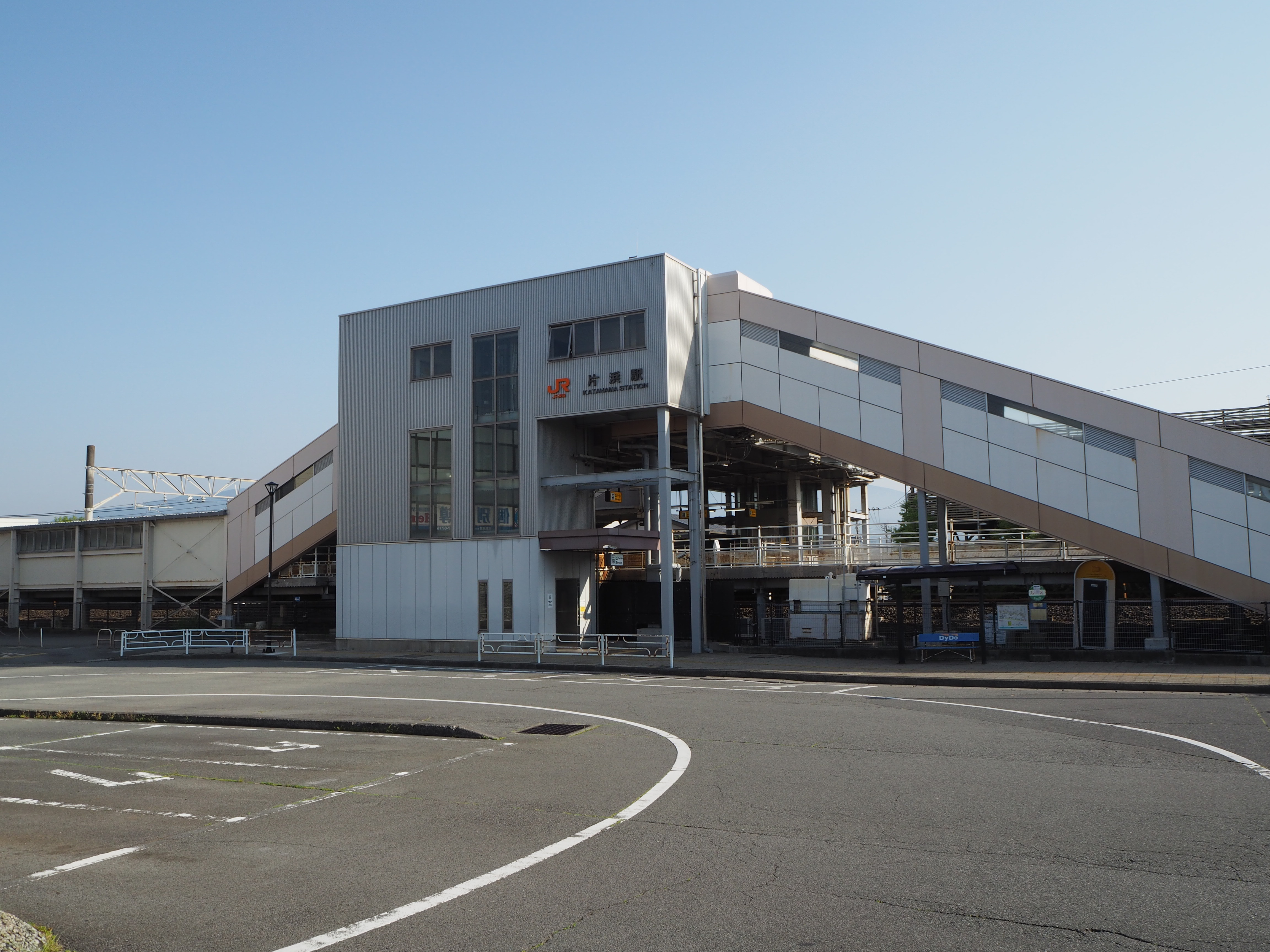 South entrance of Katahama Station